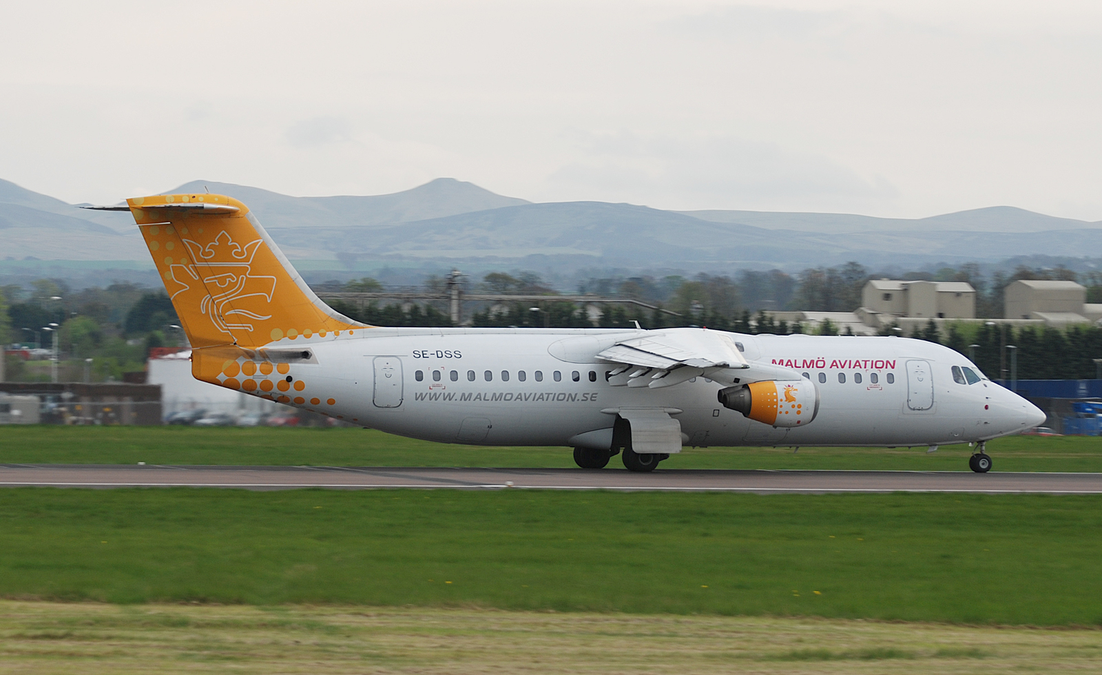 Malmö Aviation British Aerospace Avro 146 RJ-100 at Edinburgh Airport